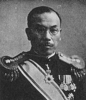 Mitsuo Miyata(The 31st Superintendent General of the Tokyo Metropolitan Police Department)